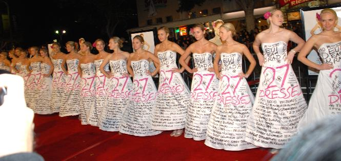 January 7, 2008 - 27 Dresses Premiere in Westwood